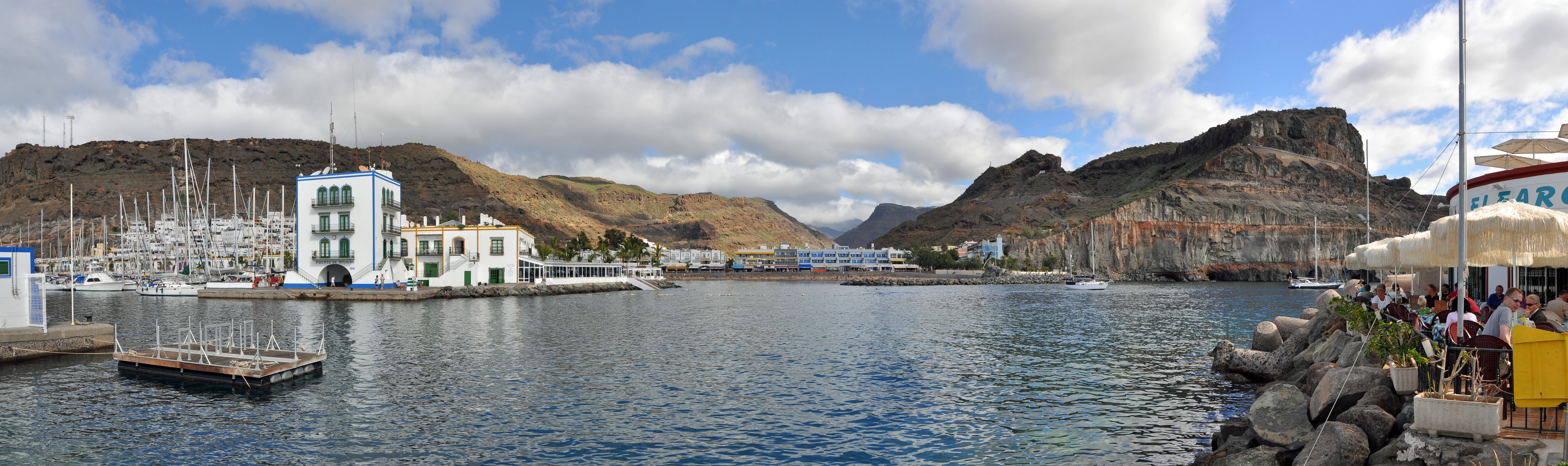 Puerto de Mogan (Gran Canaria): marina. In the background on the right: barranco del Taurito. The barranco de Mogan is on the left.